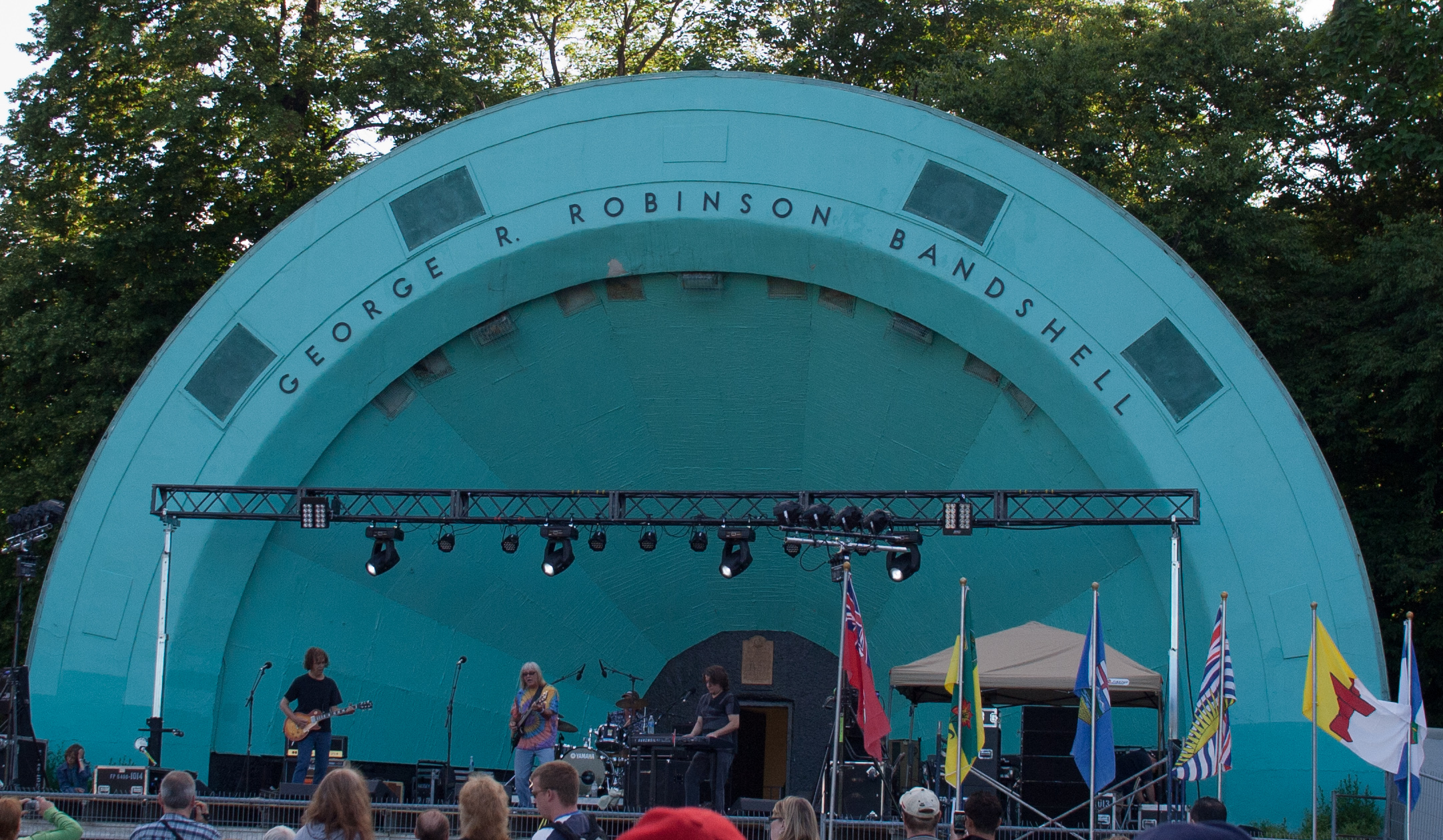 The Kings performing at the George R. Robinson Bandshell in Gage Park, Hamilton, Ontario, Canada